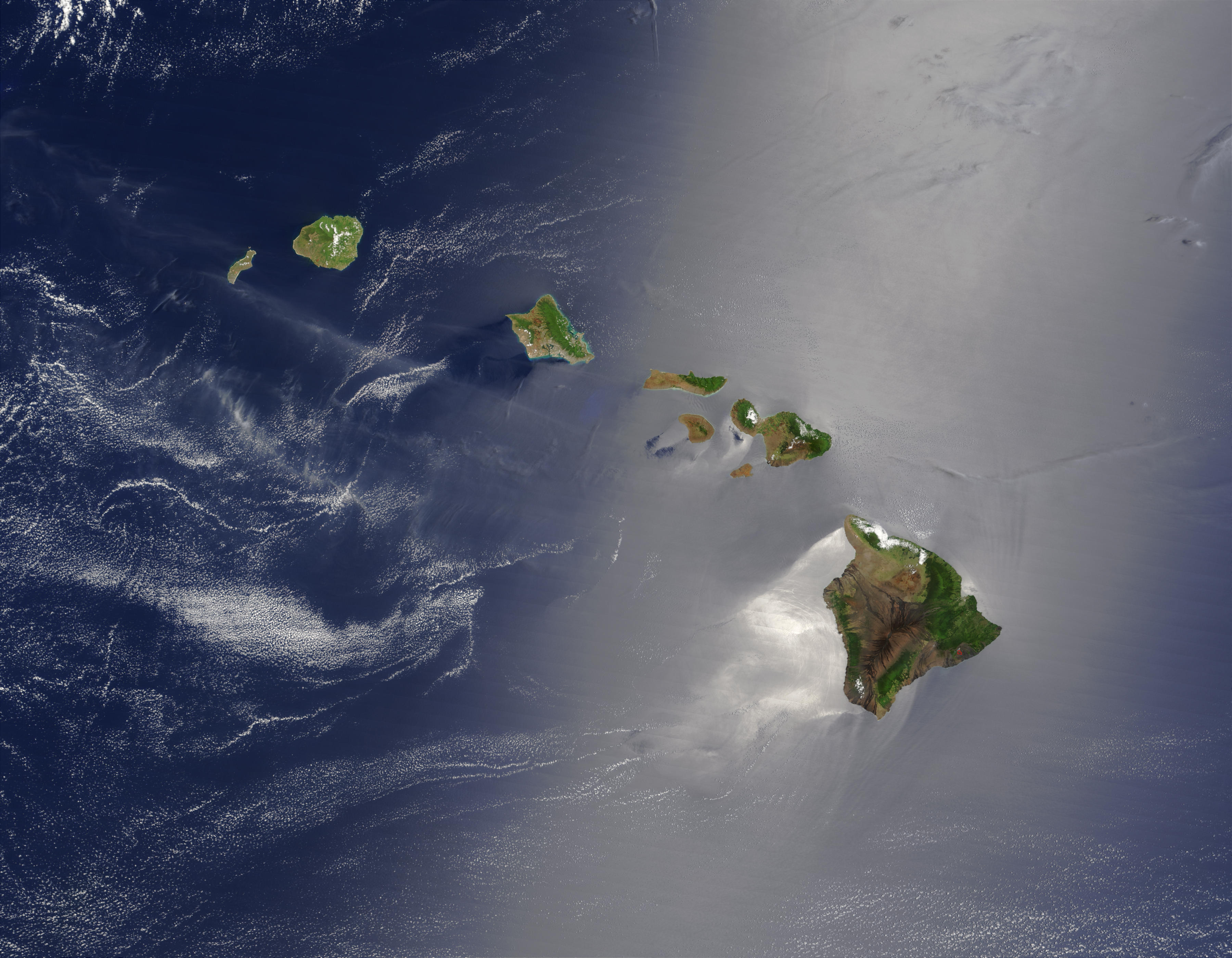 Satellite view of Hawaii archipellago (USA). Original description from NASA: "A silver swath of sunglint surrounds half of the Hawaiian islands in this true-color Terra MODIS image acquired on May 27, 2003. Sunglint reveals turbulence in the surface waters of the Pacific Ocean. If the surface of the water was as smooth as a perfect mirror, we would see the circle of the Sun as a perfect reflection. But because the surface of the water is ruffled with waves, each wave acts like a mirror and the Sun’s reflection gets softened into a broader silver swath, called the sunglint region. "In this scene, the winds ruffling the water surface around the Hawaiian Islands create varying patterns, leaving some areas calmer than others. Southwest of Hawaii and Maui, on their leeward sides, calmer waters are indicated by brighter silver coloration. Conversely, notice how most of the vegetation on the Hawaiian Islands grows on their northeastern, or windward, sides. "From lower right to upper left, the “Big Island” (Hawaii), Maui, Kahoolawe, Lanai, Molokai, Oahu, Kauai, and Niihau islands all make up the state of Hawaii, which lies more than 2,000 miles from any other part of the United States. The small red dot on the Big Island’s southeastern side marks a hot spot on Kilauea Volcano’s southern flank. Kilauea has been erupting almost continuously since January 1983, and is one of the world’s best studied volcanoes."